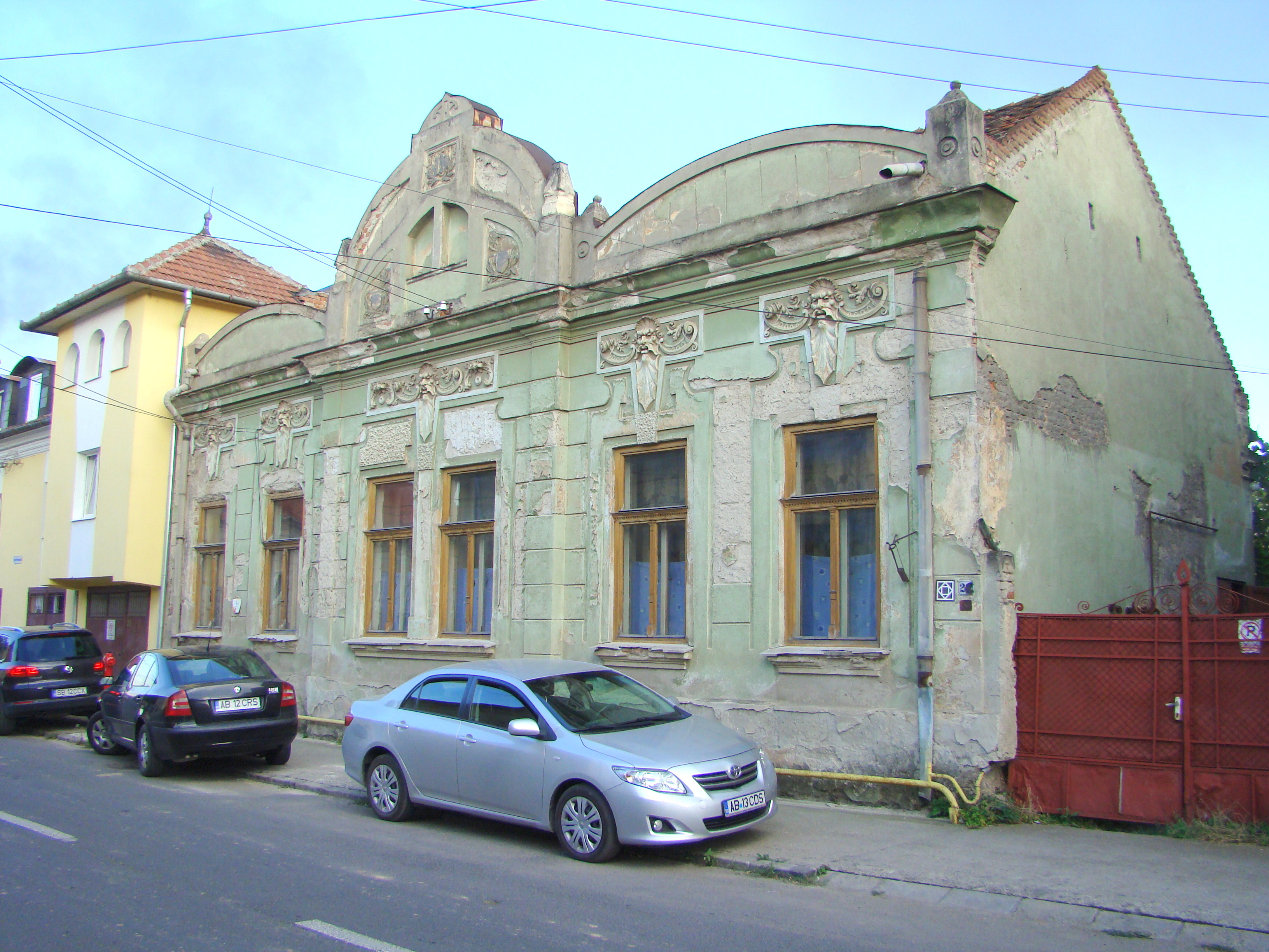 House, historic monument, Primăverii street, number 22, Alba Iulia, Alba county, Romania